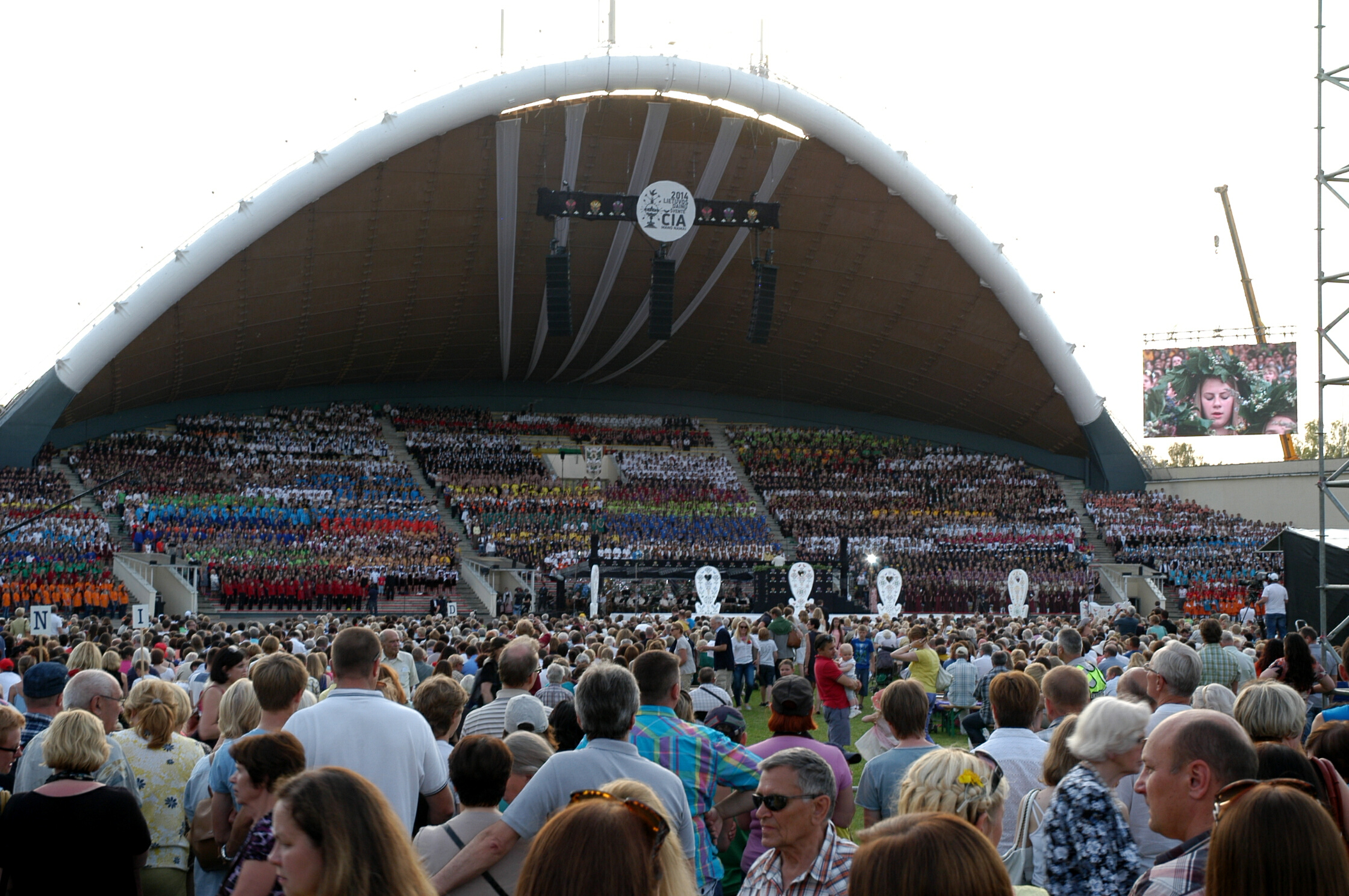 Lithuanian Song Celebration (2014), Vingio parkas, Vilnius